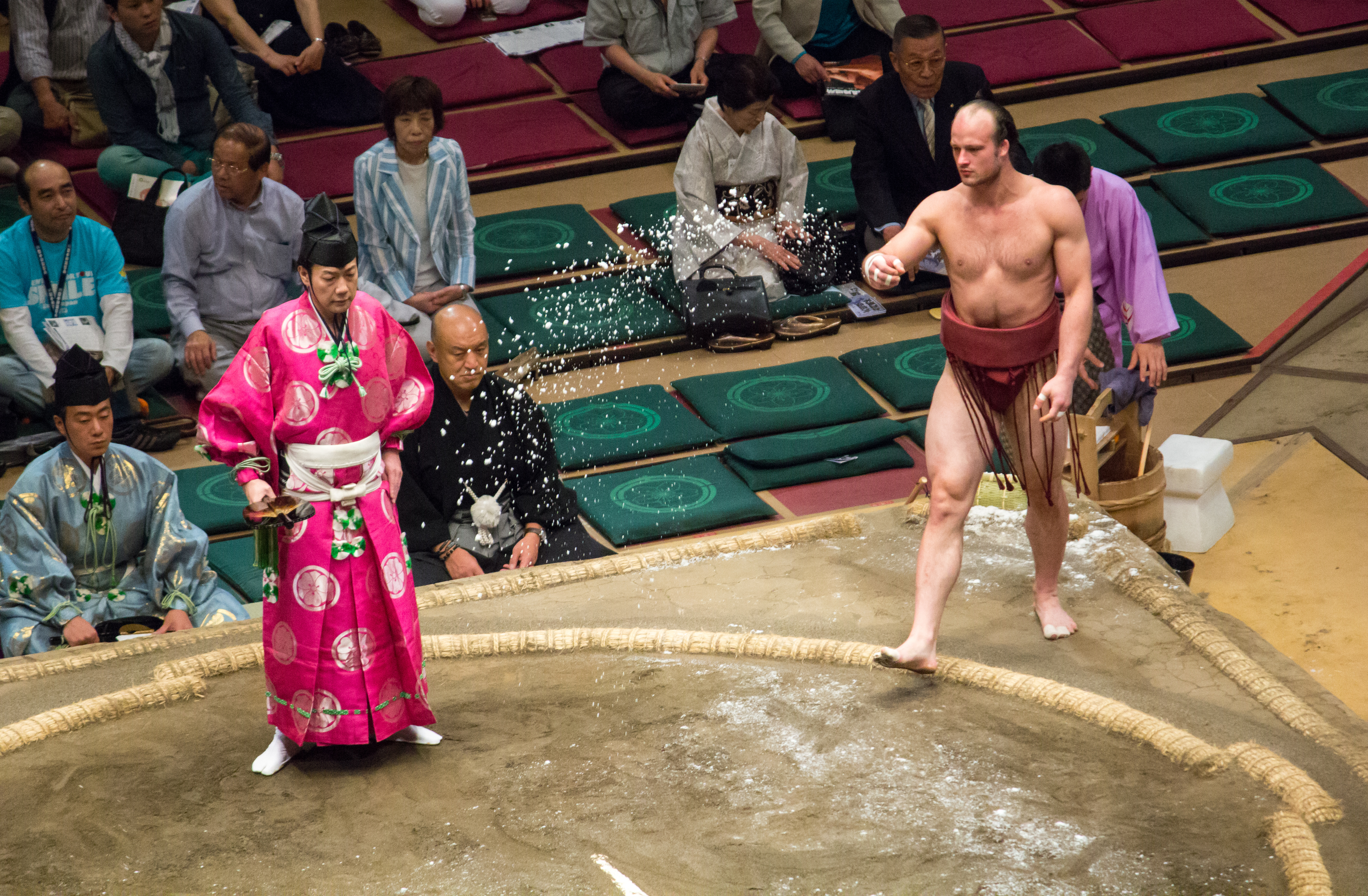 Sumo wrestler Takanoyama at the 2014 May Grand Sumo Tournament in Tokyo, Japan. Canon EOS 60D + EF-S 55-250mm F4-5.6 IS